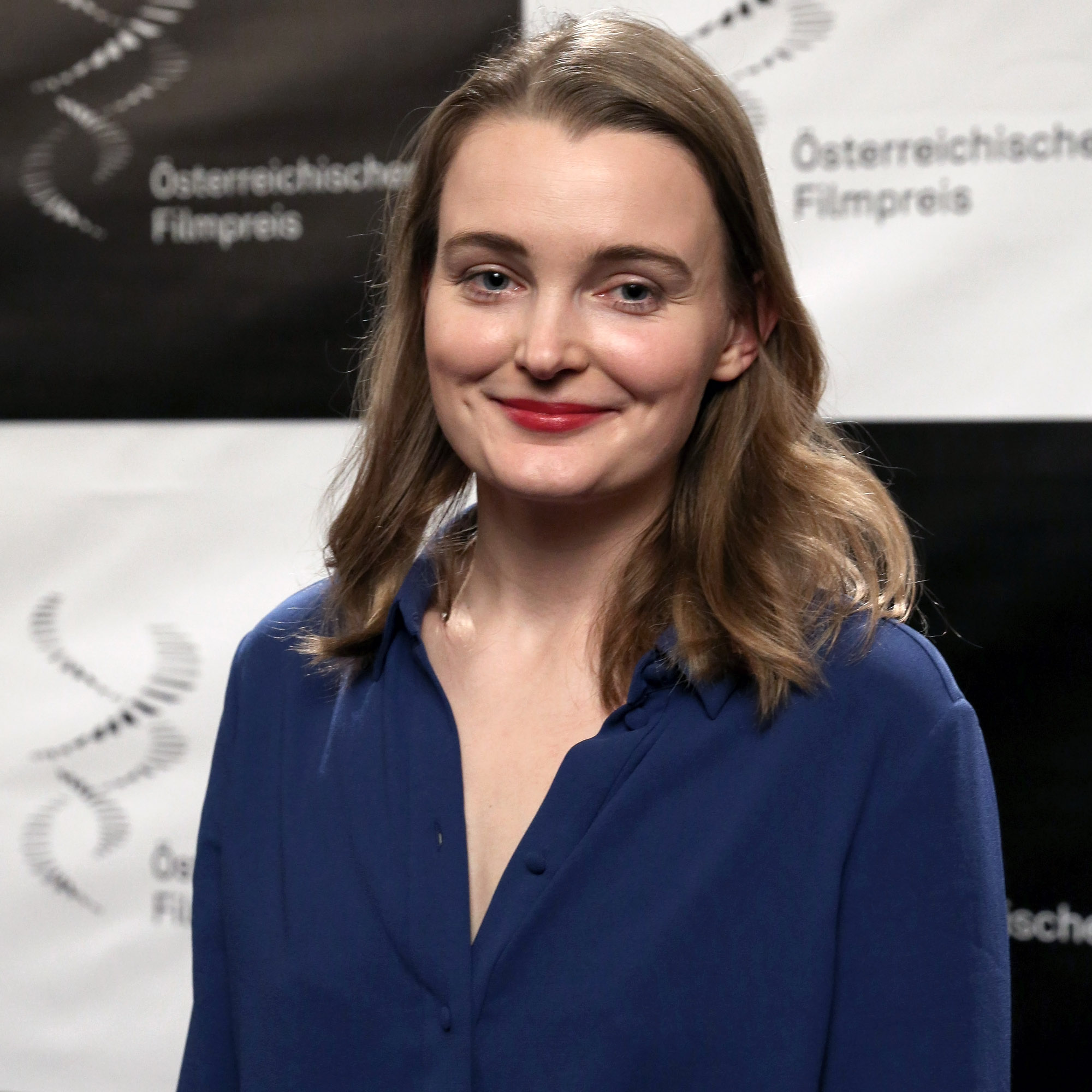 Birte Schnöink at the Austrian Film Awards 2015 at Rathaus, Vienna,Austria.